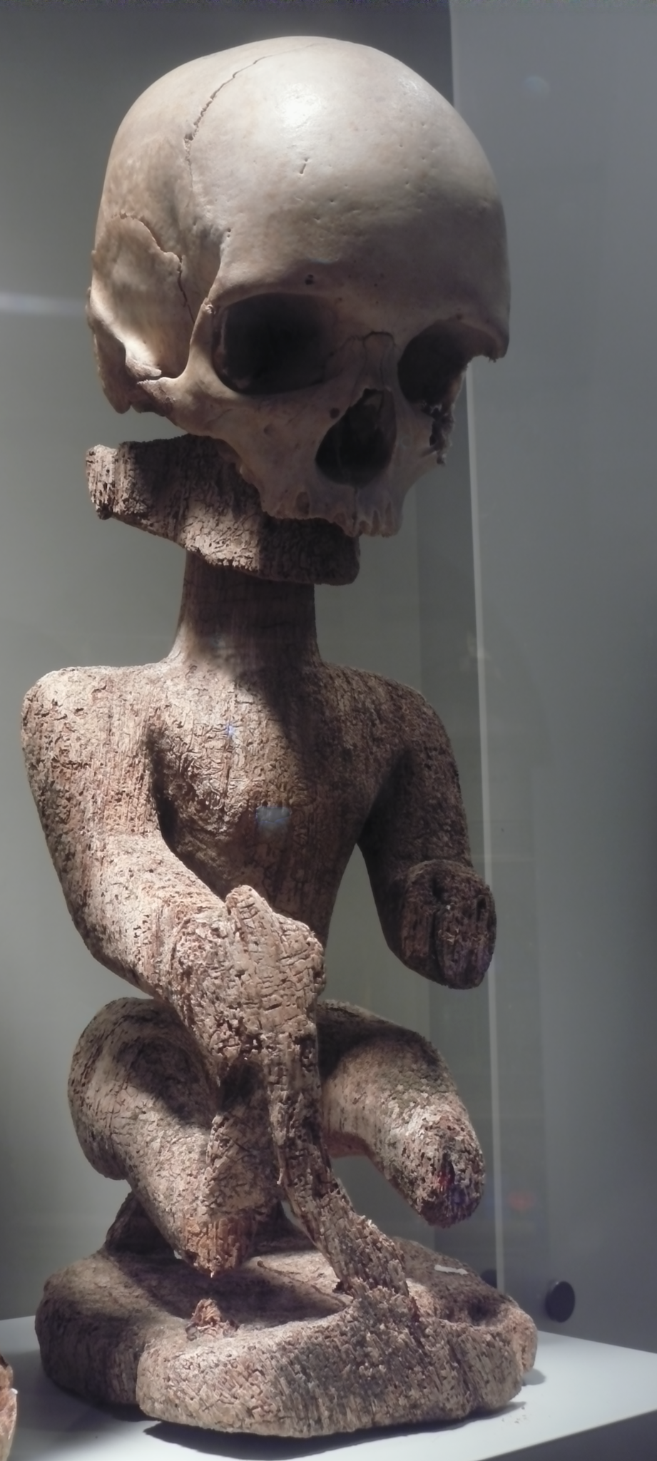 Korwar, a wooden ancestral figure that preserved the memory of dead villagers. They were made in the north of New Guinea and played a key role in the communication between the dead and the living. Occasionally Korwars contained a real skull for the head. These were made for the leading villagers. Tropenmuseum Amsterdam.